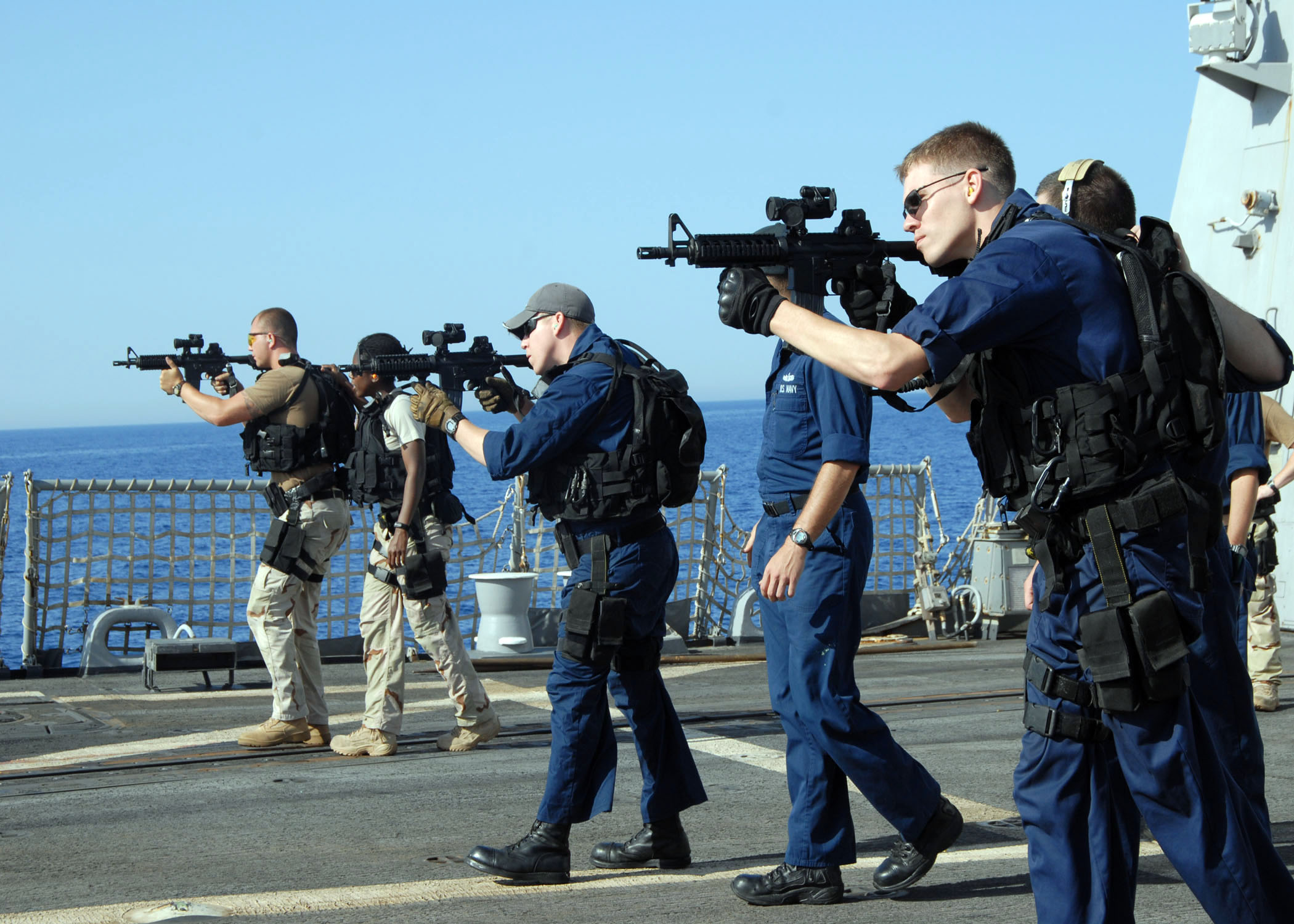 MEDITERRANEAN SEA (June 19, 2008) Members of the visit, board, search and seizure (VBSS) team aboard the guided-missile destroyer USS Bulkeley (DDG 84) practice essential gun-firing procedures with the MK-18 rifle. VBSS teams play a vital role in maritime security operations all around the world. Bulkeley is one of six vessels of the Nassau Strike Group operating in the Navy's 6th Fleet area of responsibility supporting maritime security operations. U.S. Navy photo by Mass Communication Specialist 3rd Class David Wyscaver (Released)